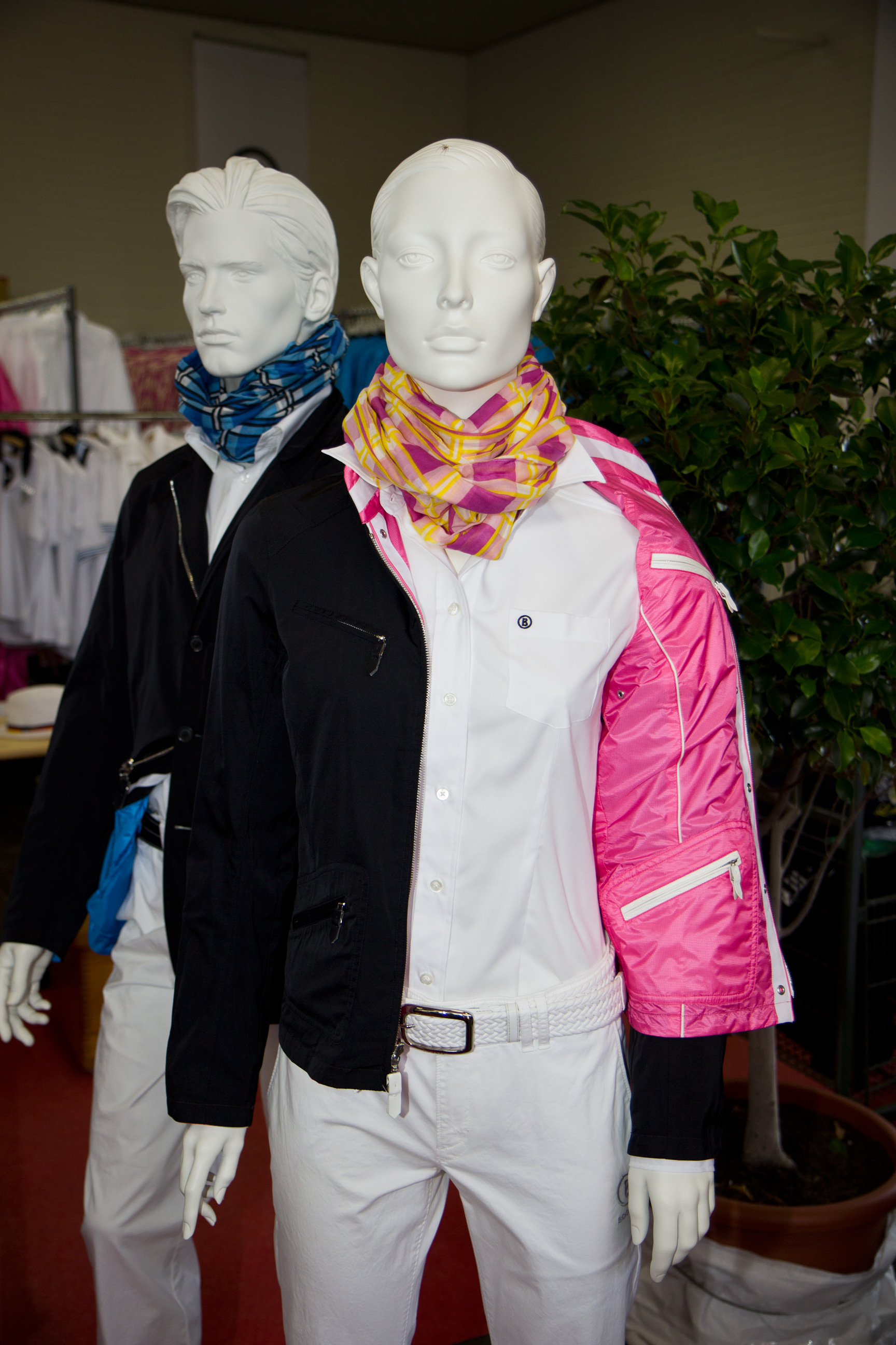 Outfitting the Olympic team of Germany 2012